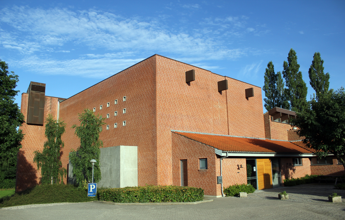 The Sundkirken church located in Sundby near Nykoebing Falster i Denmark